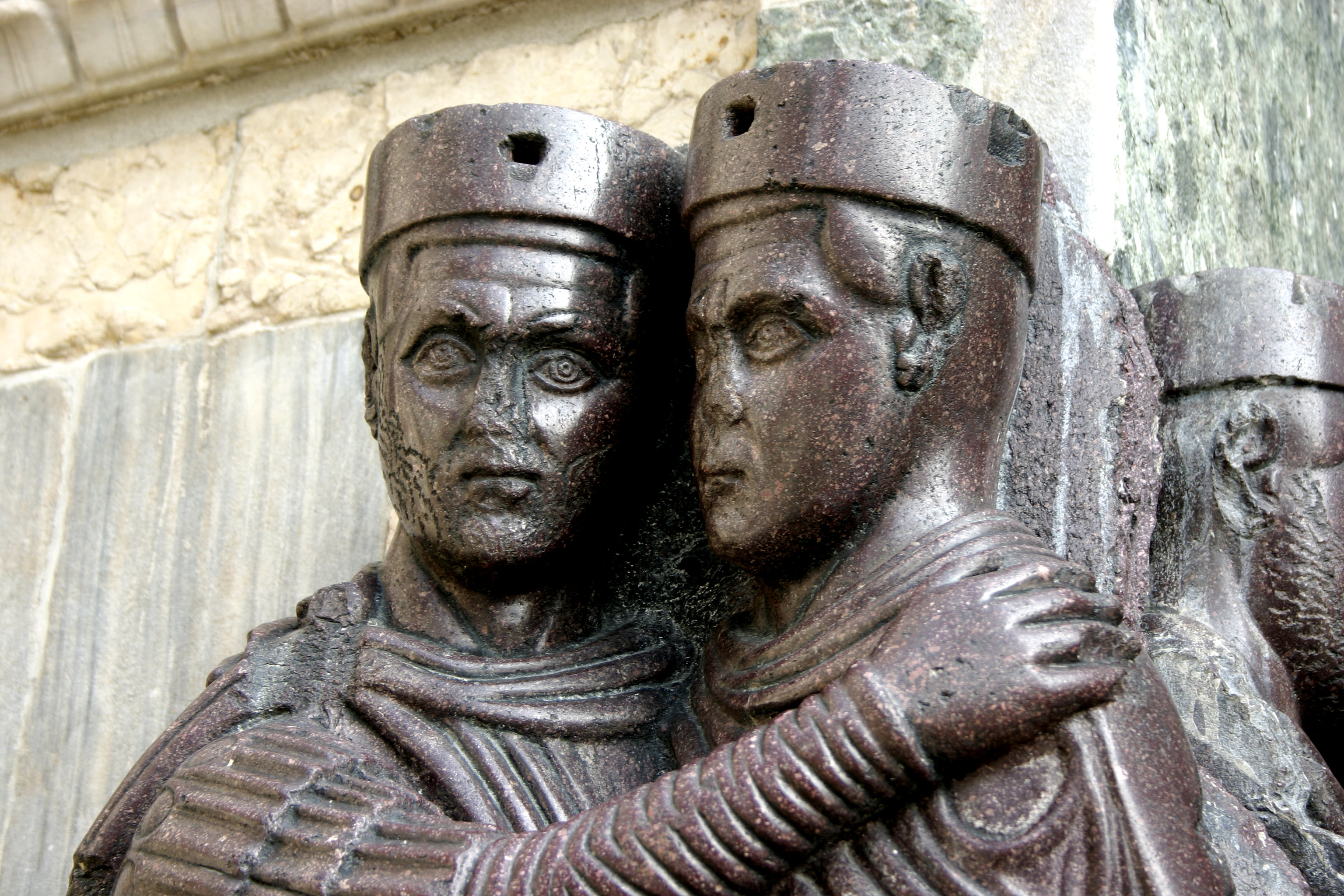 The tetrarchs (from the Greek words for "Four rules") were the four co-rulers that governed the Roman Empire as long as Diocletian's reform lasted. Here they were portraied embracing, in sign of harmony, in a porphyry sculpture dating from the 4th century, produced in Asia Minor, today on a corner of Saint Mark's in Venice, next to the "Porta della Carta".